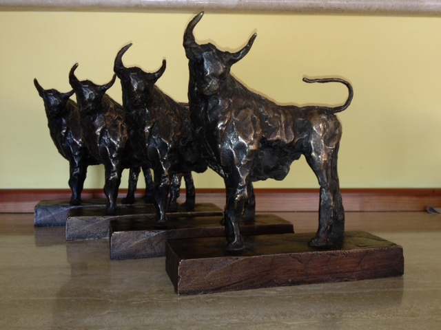 The main award of the Ecologico International Film Festival